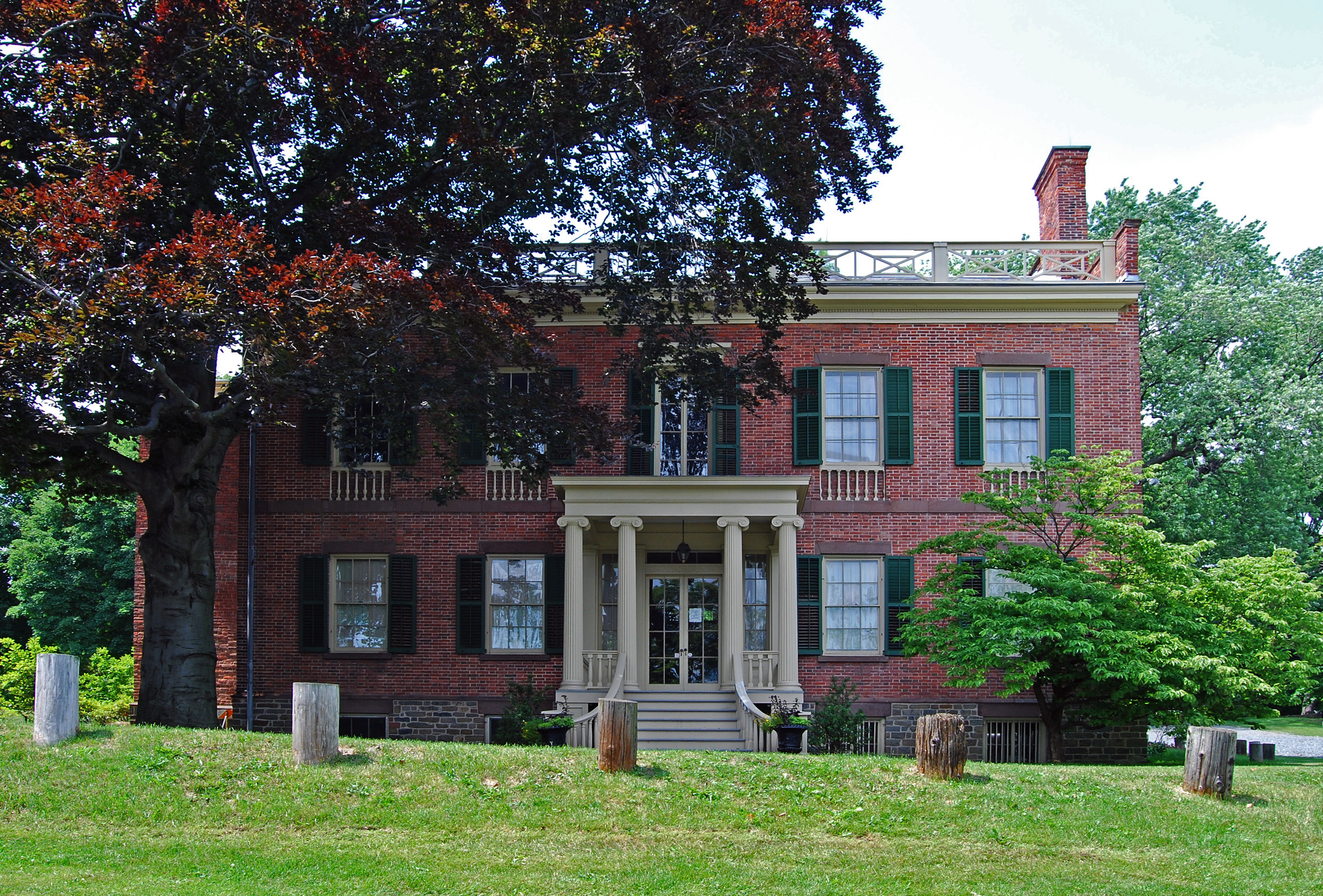 The Ten Broeck Mansion, located in Albany, New York, United States and built in 1797. Former home to Abraham Ten Broeck (1734—1810) and currently home to the Albany County Historical Association. Added to the National Register of Historic Places in 1971.